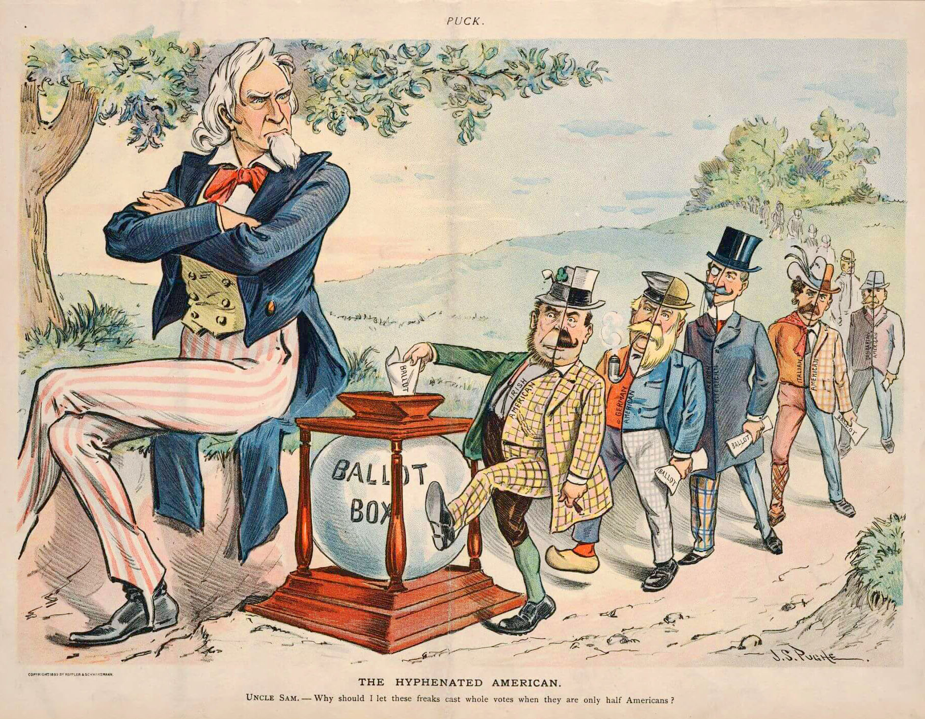 1899 cartoon hostile to immigrants voting in the United States. Cartoon shows Uncle Sam seated at left, looking displeased. A row of men are lined up to place ballots in a ballot box. Each of them is split down the middle, one side dressed in stereotyped European garb, the other in contemporary US fashion. They are labeled "Irish-American", "German-American", "Italian-American", etc. Caption: THE HYPHENATED AMERICAN Uncle Sam: Why should I let these freaks cast whole votes when they are only half American?